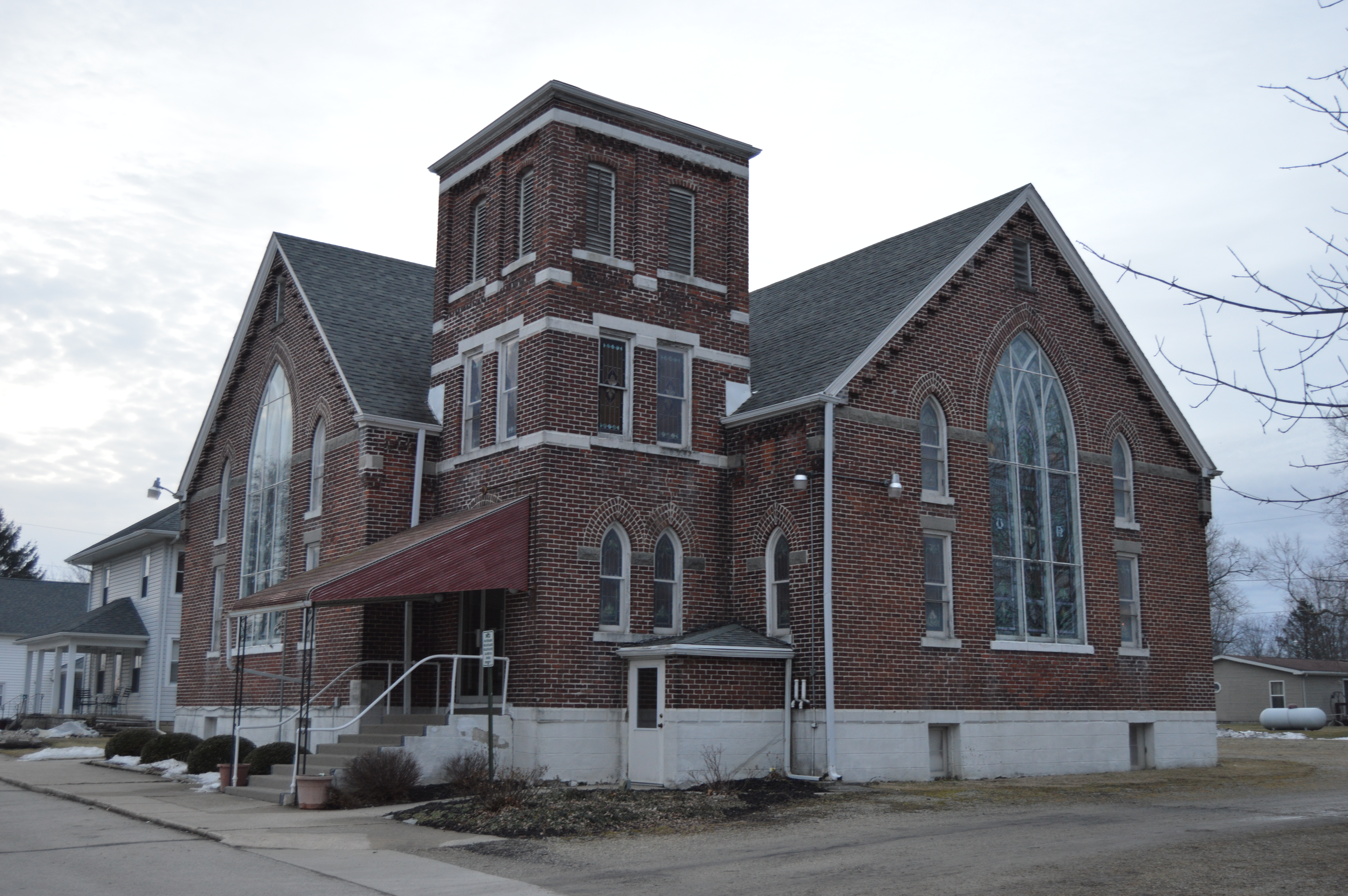 Front and western side of the Poneto United Methodist Church, located at 36 E. Walnut Street in Poneto, Indiana, United States.